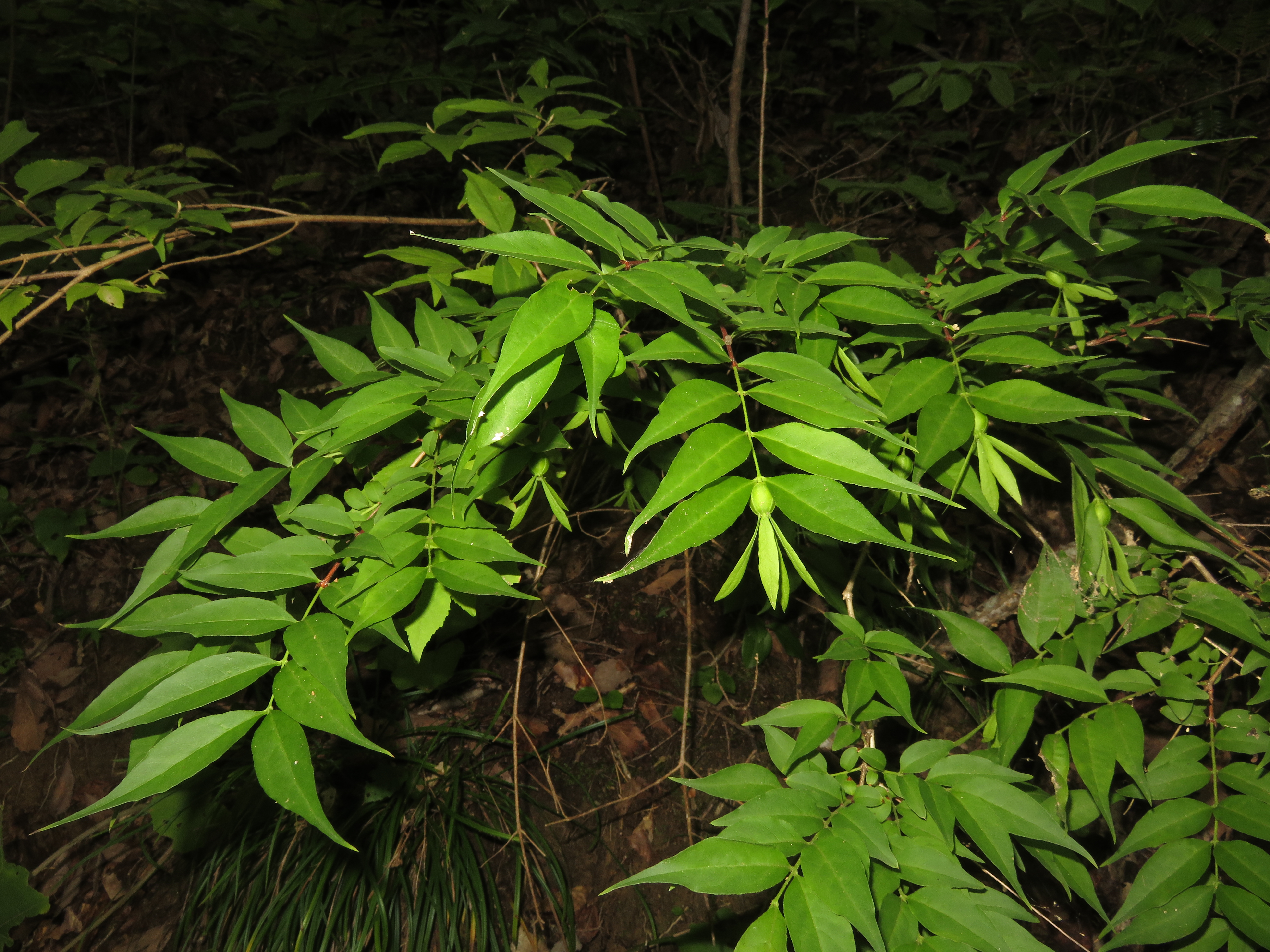 Buckleya lanceolata, Aizu area, Fukushima pref., Japan